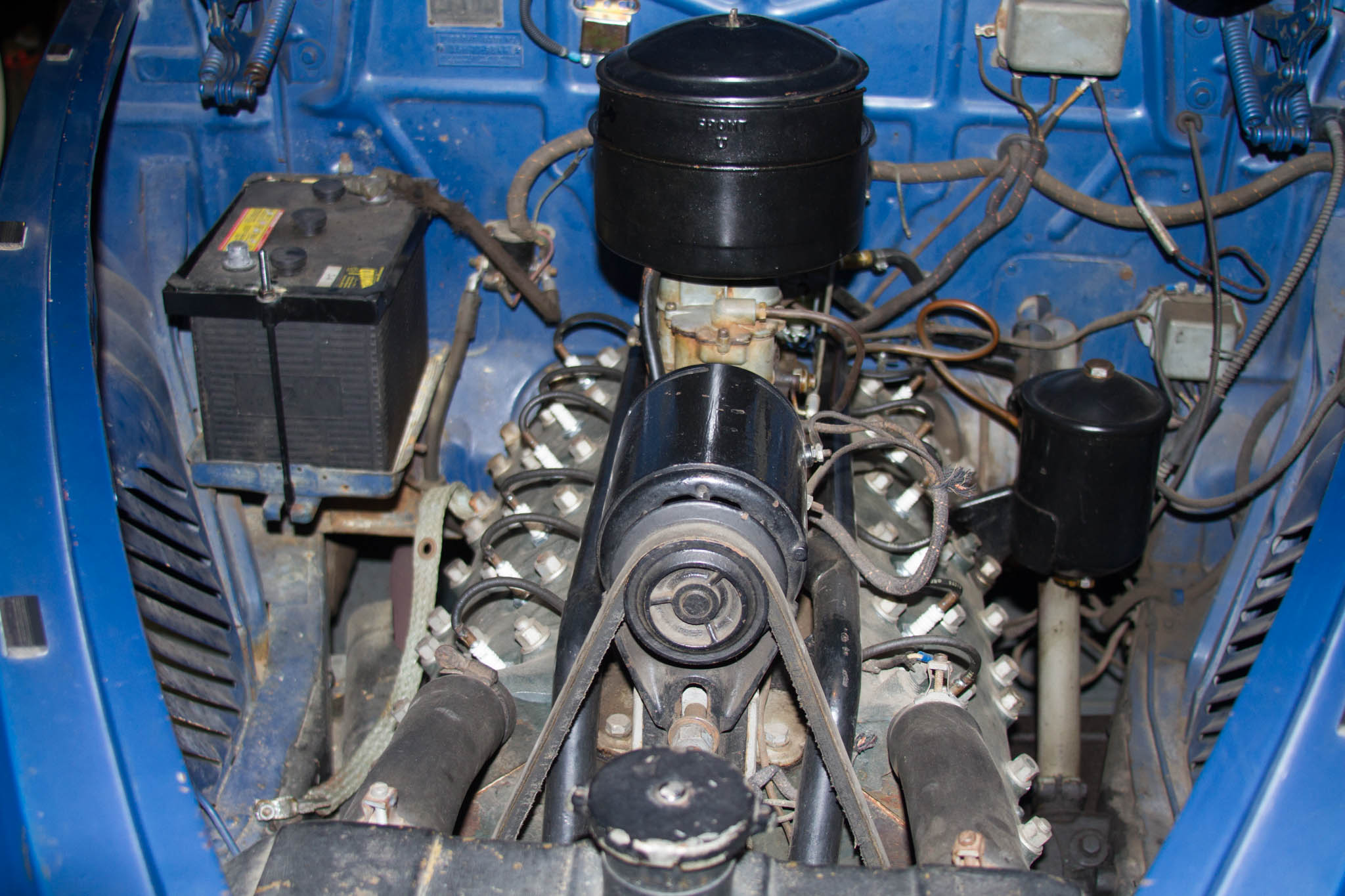 This Lincoln Zephyr V12 engine is mounted in the Lincoln Zephyr 4-door sedan. This is the 292 cubic inch version of this engine currently on display at the WAAAM museum.